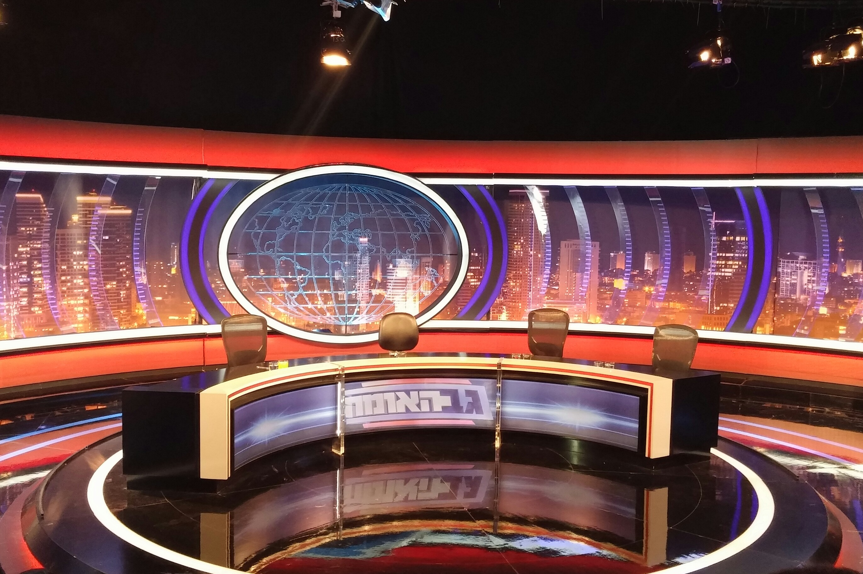 "Gav Ha'uma", a satirical Israeli television show. Filmed in Herzliya, 2015.